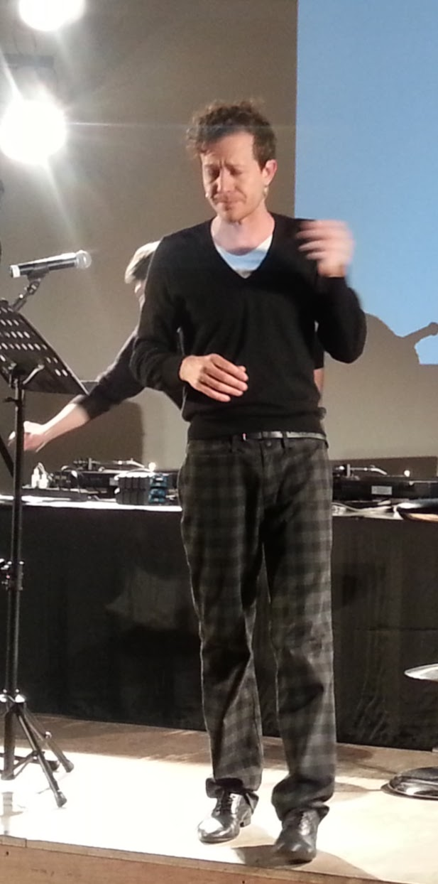 Alex Braga